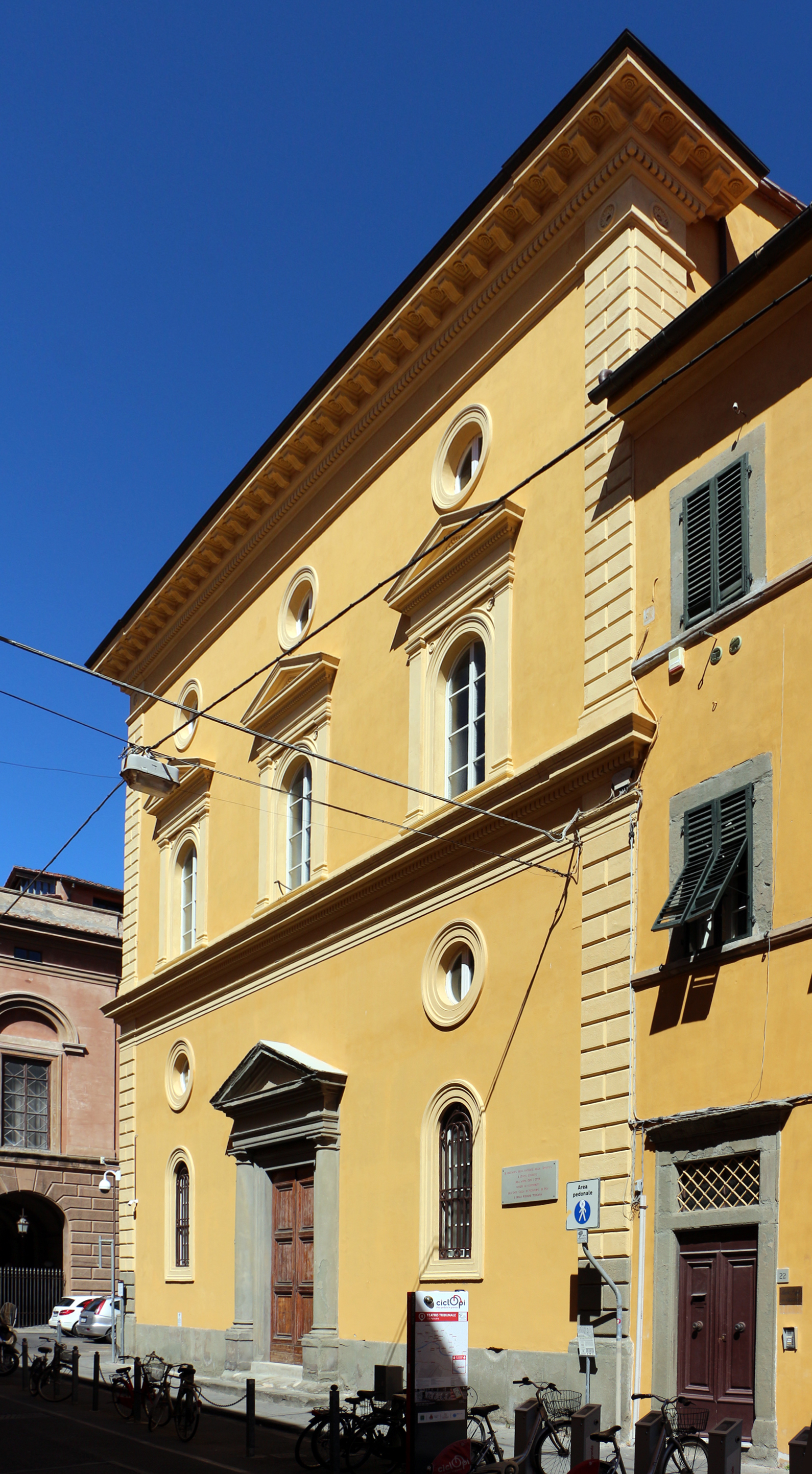 Pisa, miscellany